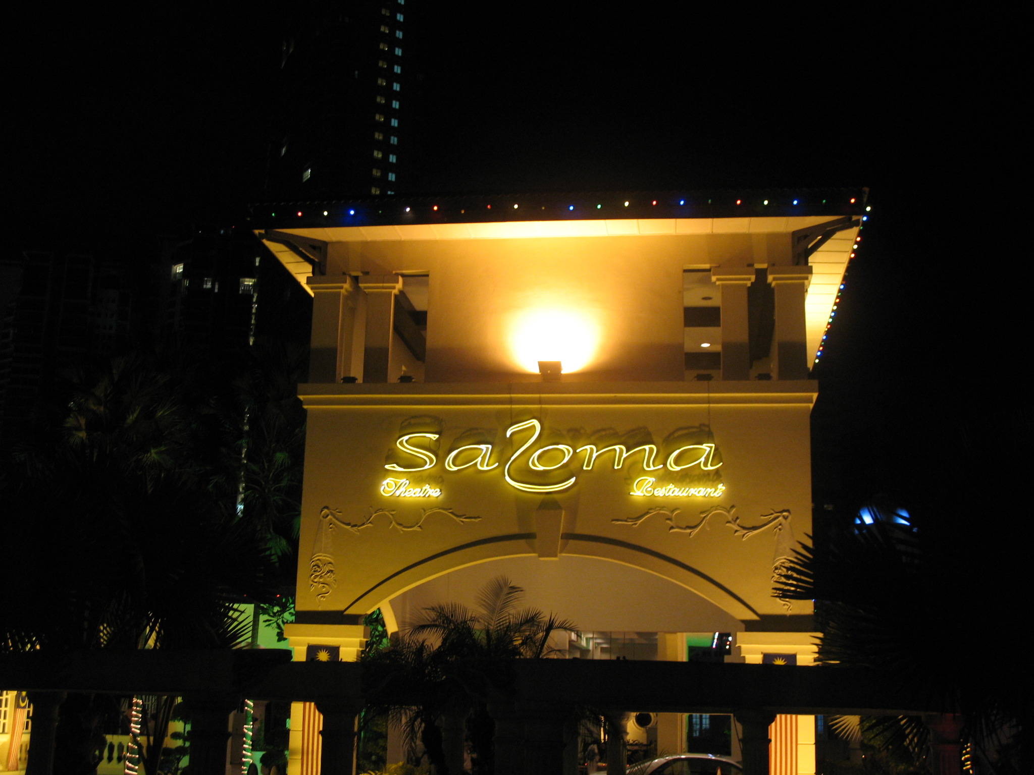 Saloma Bistro in Kuala Lumpur.